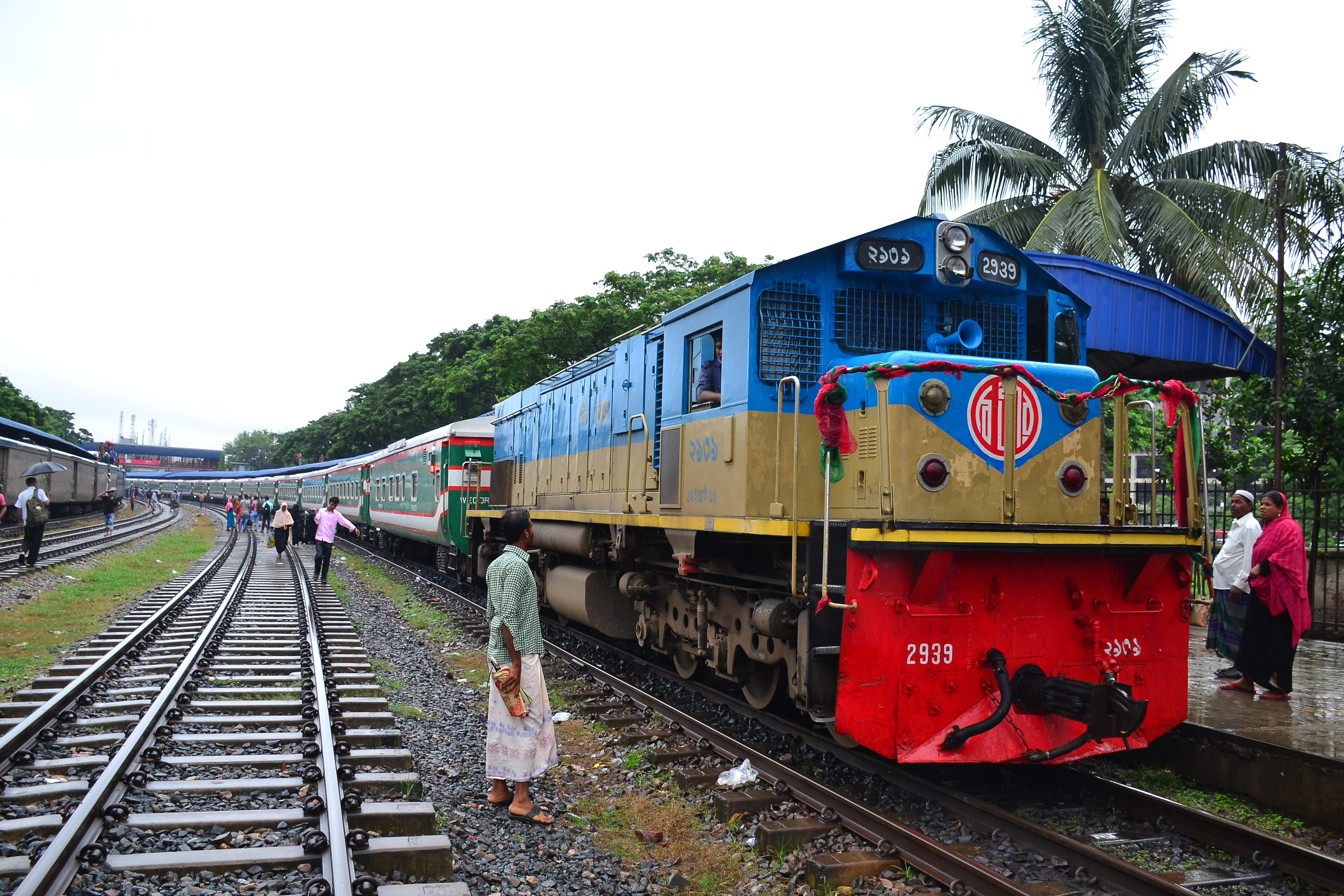 Shonar Bangla Express at Dhaka Airport Station